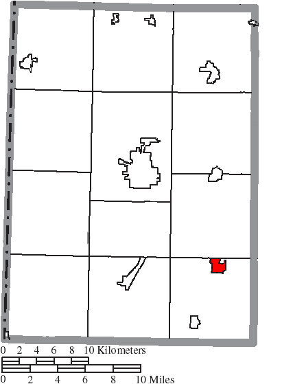 Map of the municipal and township boundaries of Preble County, Ohio, United States, as of the 2000 census, with the location of the village of Gratis highlighted. Township borders are shown only in unincorporated areas in order to differentiate incorporated and unincorporated areas more clearly.